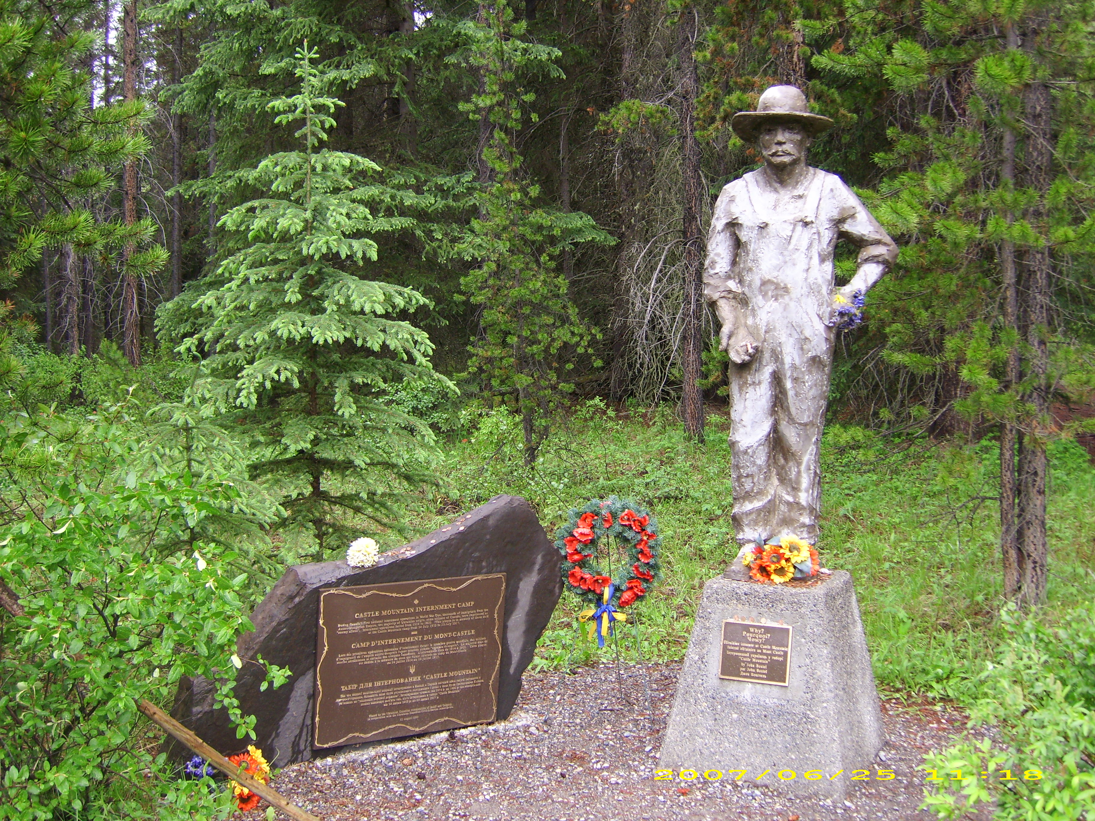 Plaque and Statue commemorating the Castle Mountain Internment Camp in Banff National Park, Alberta, where many Canadian imigrants, mostly of Ukrainian origin, were detained during World War I